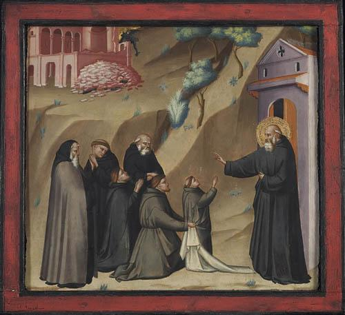 St. Benedict Restores Life to a Young Monk